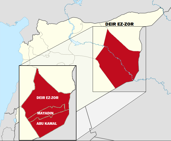 Deir ez-Zor Governorate on Syria Map with its Subdistricts.